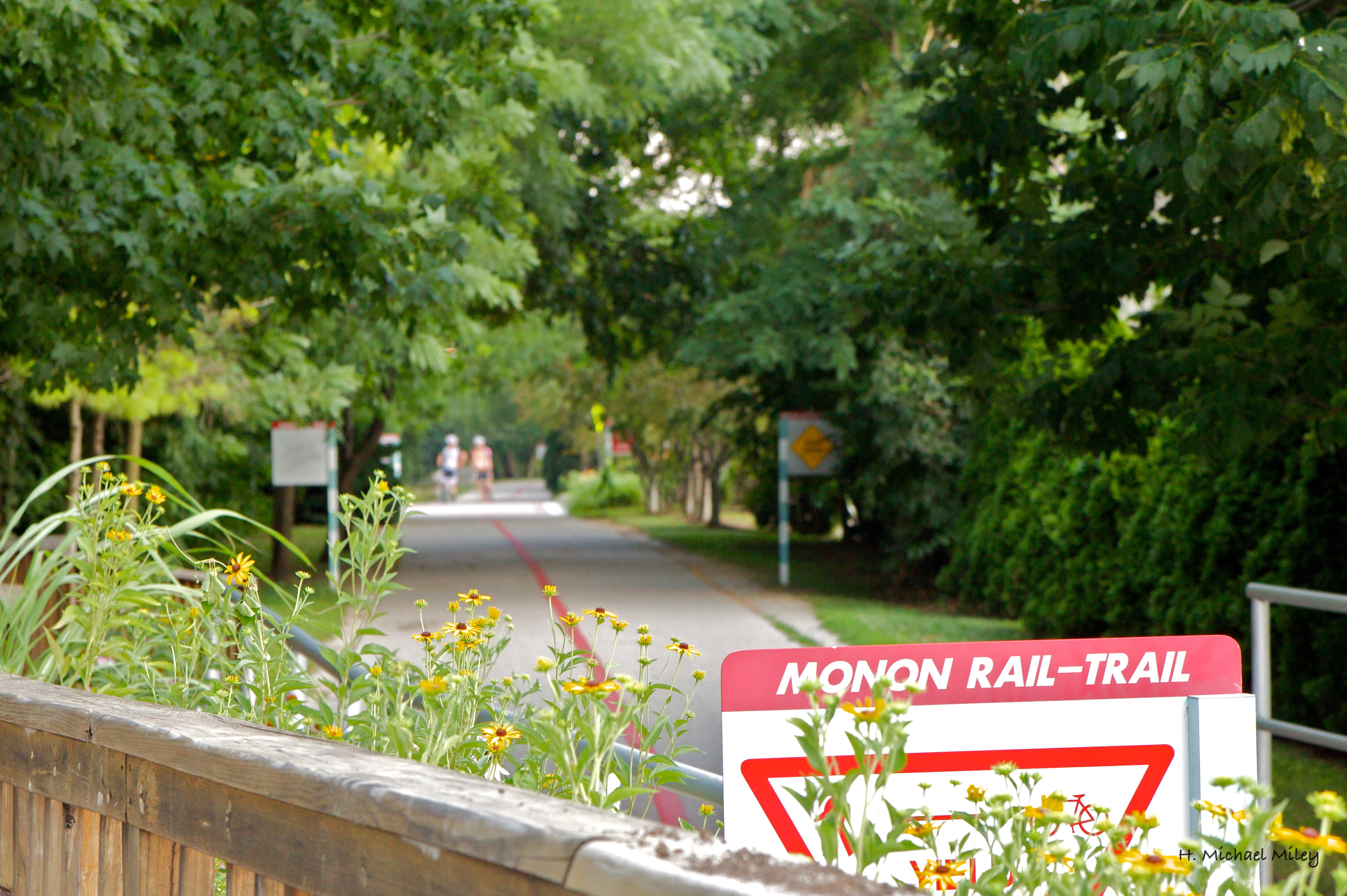 A Trip to IN and MI